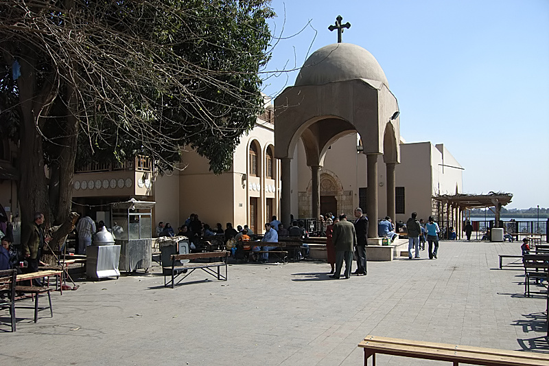 Court of the Church of the Holy Virgin, el-Maadi, Egypt